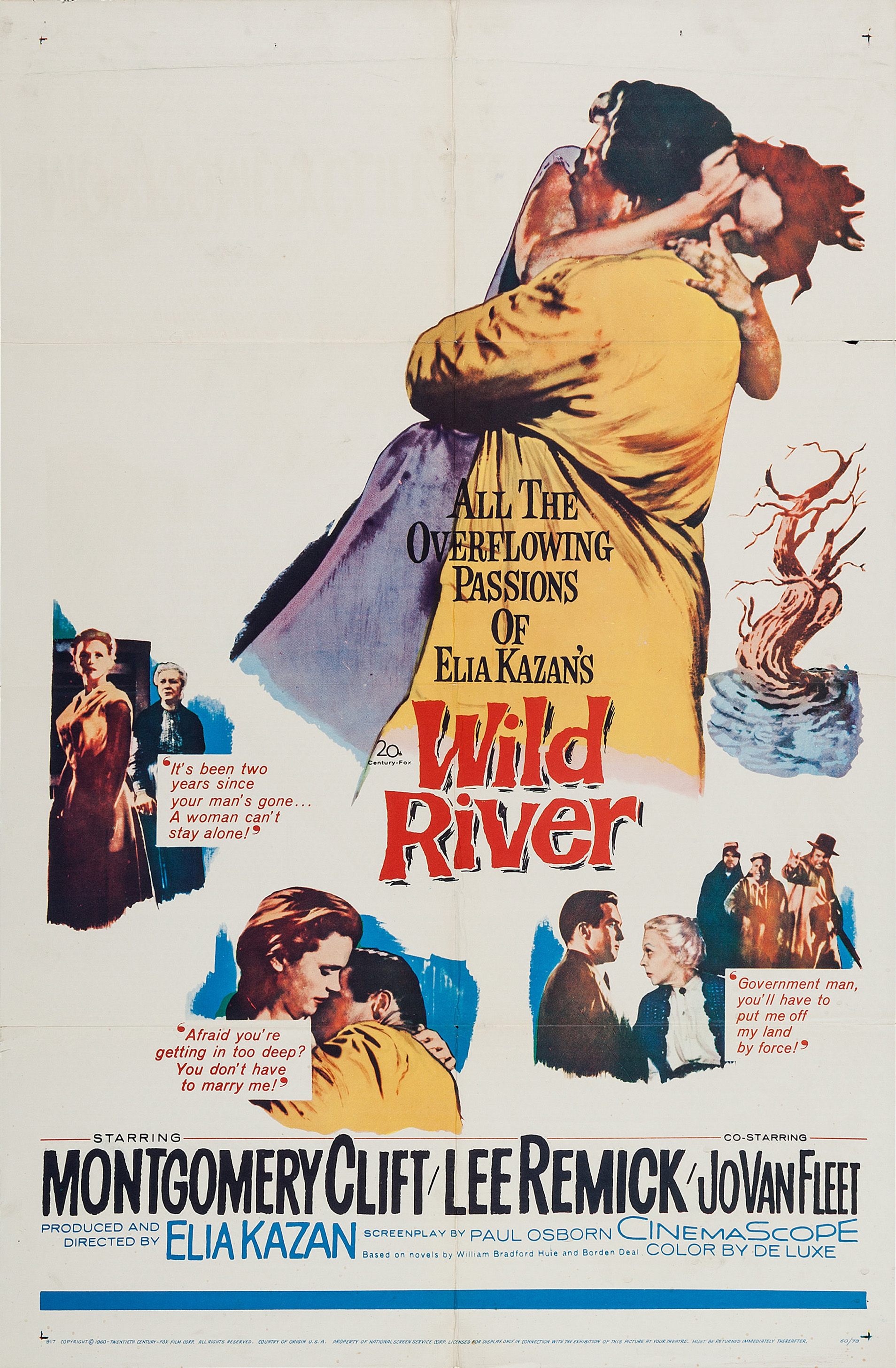 Theatrical release one-sheet poster for the 1960 film Wild River.